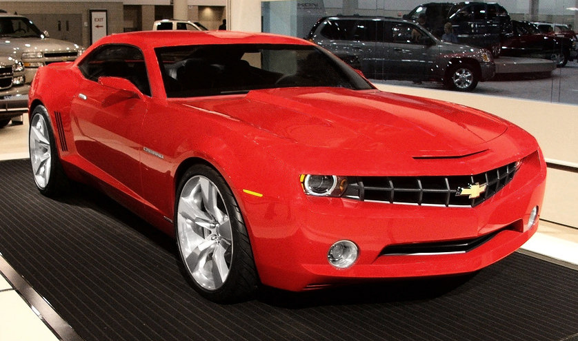 2006 Chevrolet Camaro Concept at the 2006 Houston Auto Show. This has been retouched from the original version of the image found here. Hard glare was removed and minor color and density correction were made along with other small manipulations.